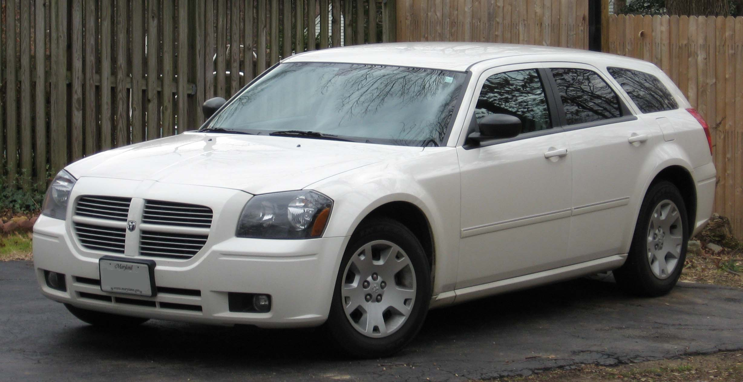 2005-2007 Dodge Magnum V6 photographed in USA.